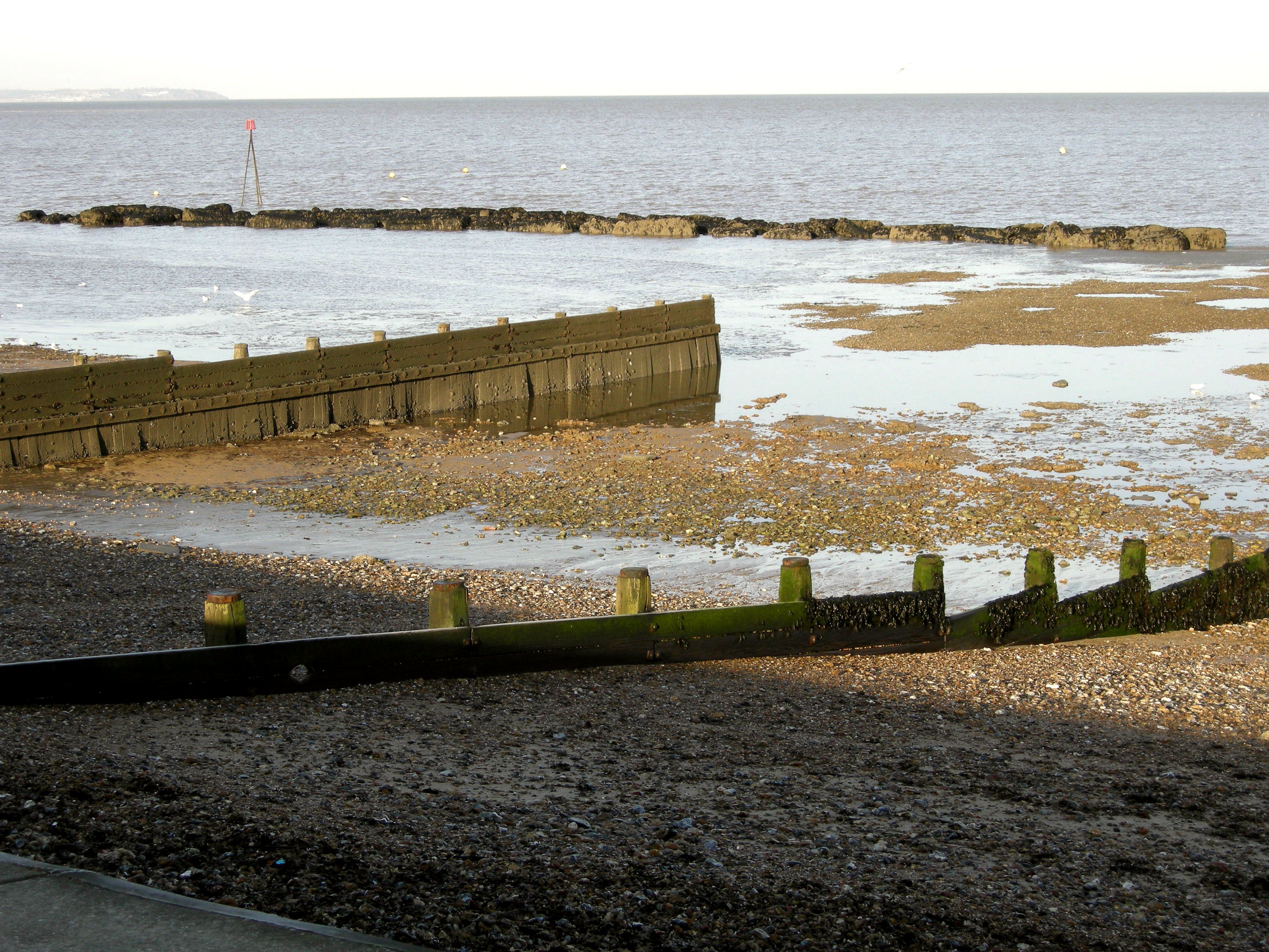 Site of abandoned and drowned village Hampton-on-Sea, Herne Bay, Kent, England. Source of identification of site: Martin Easdown, Adventures in Oysterville, (Michael's Bookshop, Ramsgate, 2008)